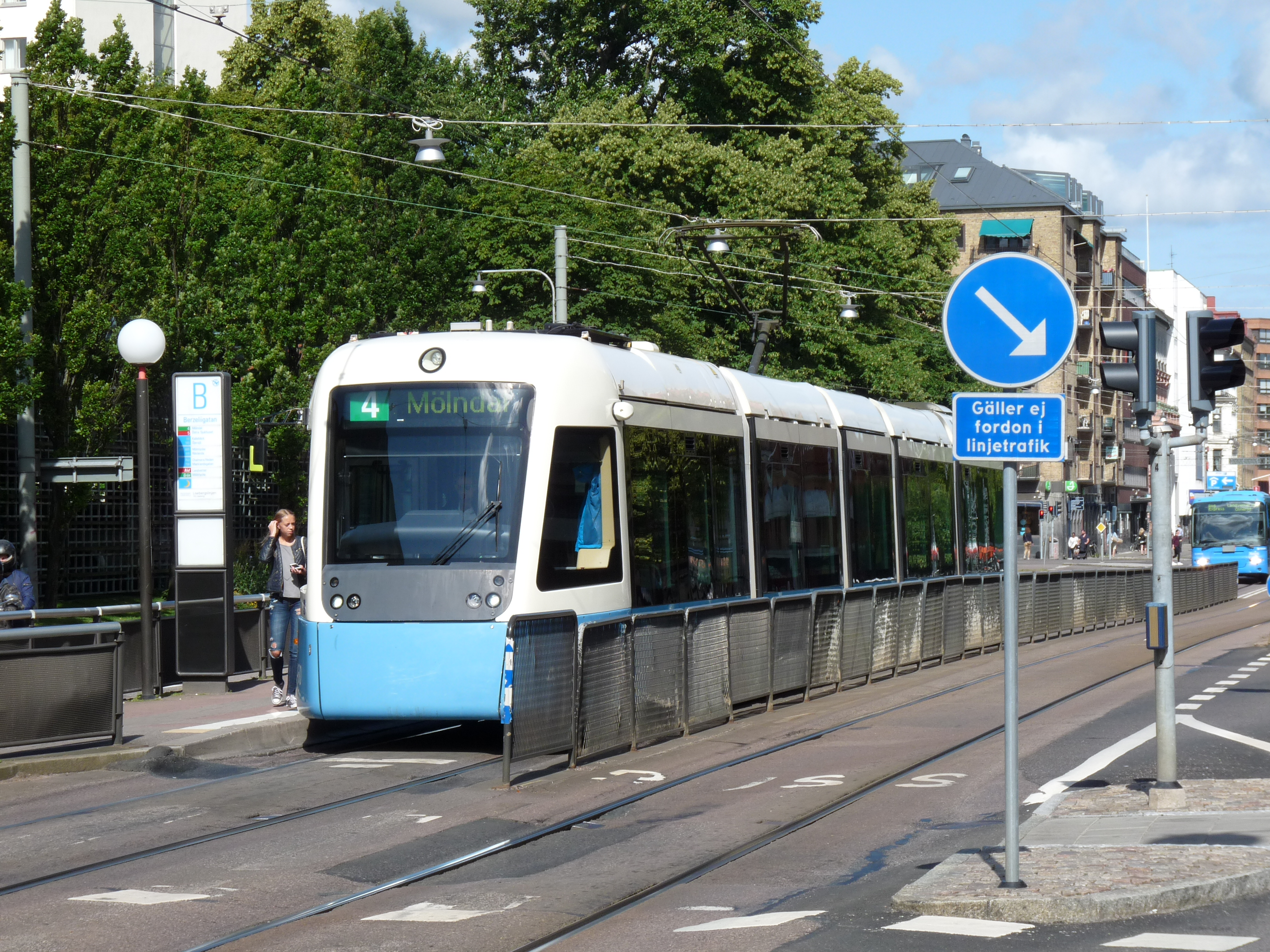 Trams in Göteborg, july 2015